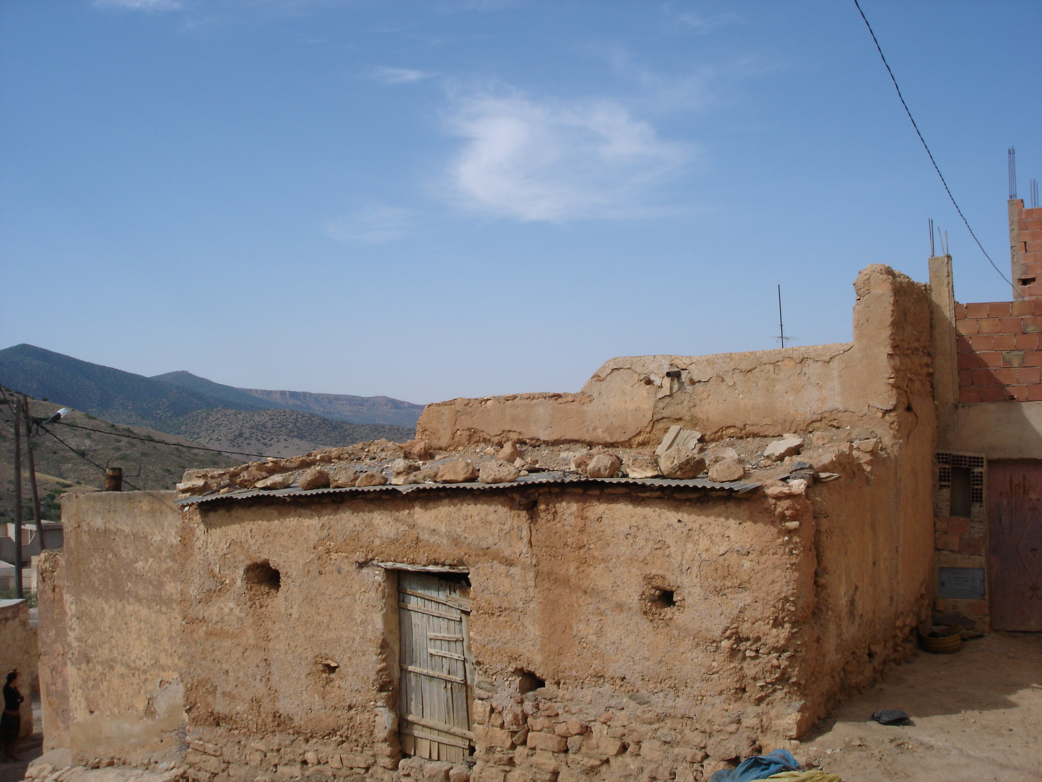 Typical house in Debdou village, Morocco oriental.